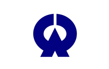 Flag of Otoyo Kochi